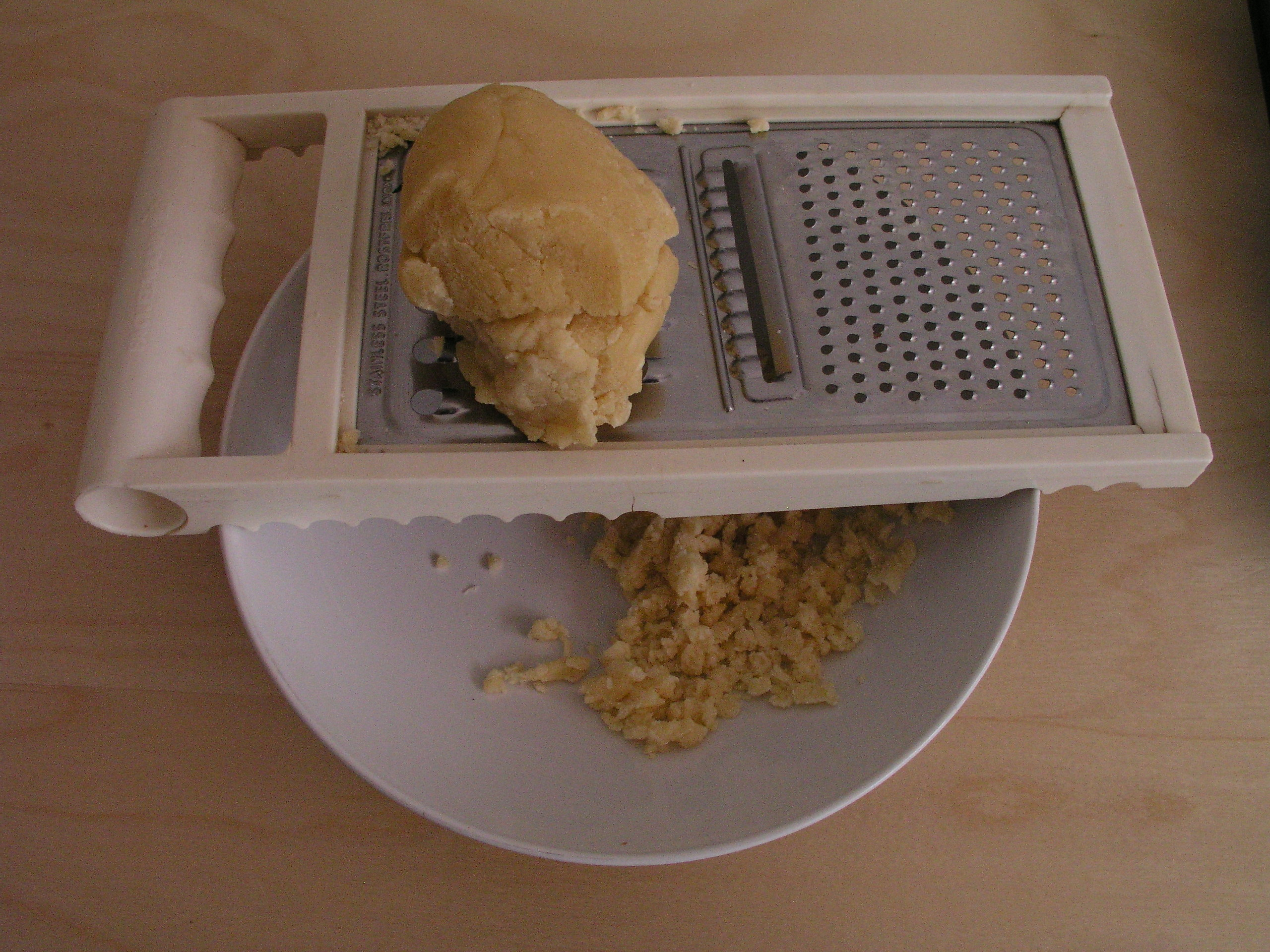 Grating of dough for Tarhonya (Hungarian kind of pasta). The dough is made off wheat flour, eggs, water, oil and salt and is quite dry.